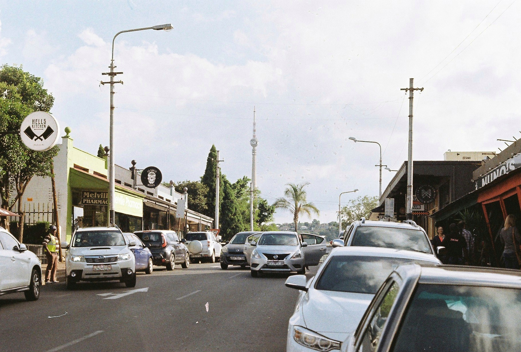 This image was captured with an old film camera as we walked along the streets with Joburg Photowalkers, a club made up of photographers that are passionate about walking the streets and photographing what we see. What caught my attention was the beautiful clouds in the sky with trees in the background. Seemingly calm, but the names of restaurants were quick shocking, as well as the traffic in the street. This is an image with the theme "Africa on the Move or Transport" from: South Africa